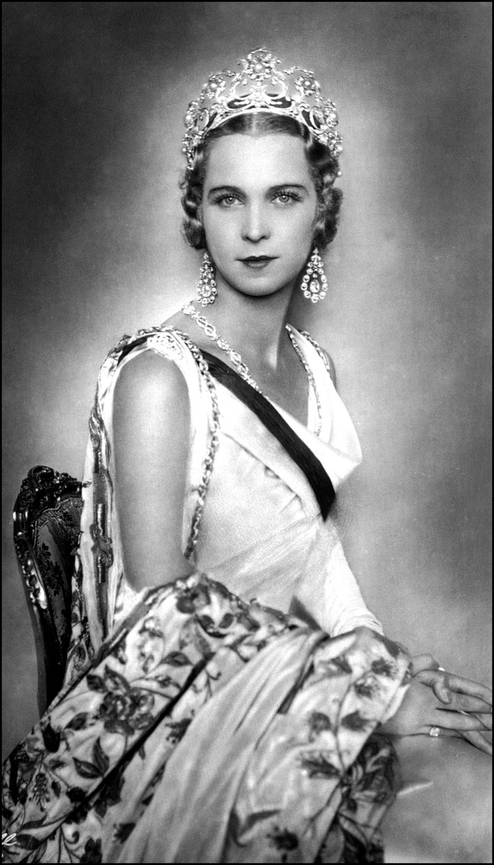 Maria José of Belgium